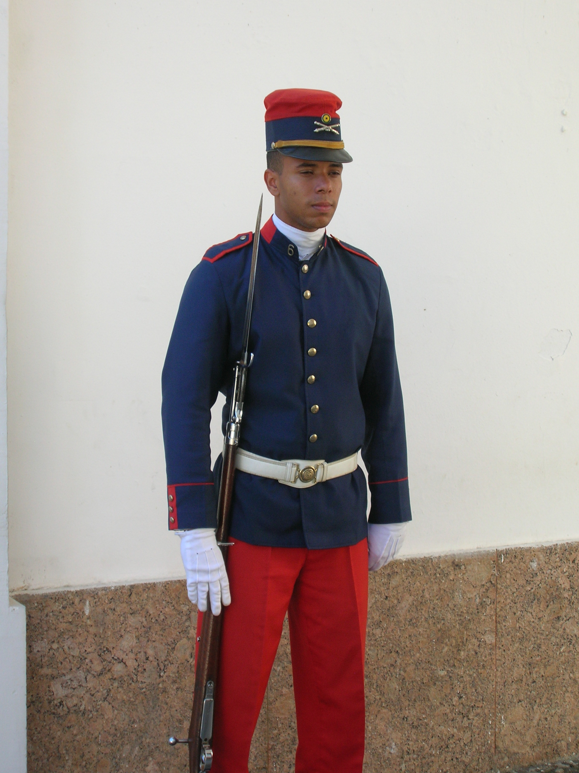 Guard in period uniform at Fort Copacabana